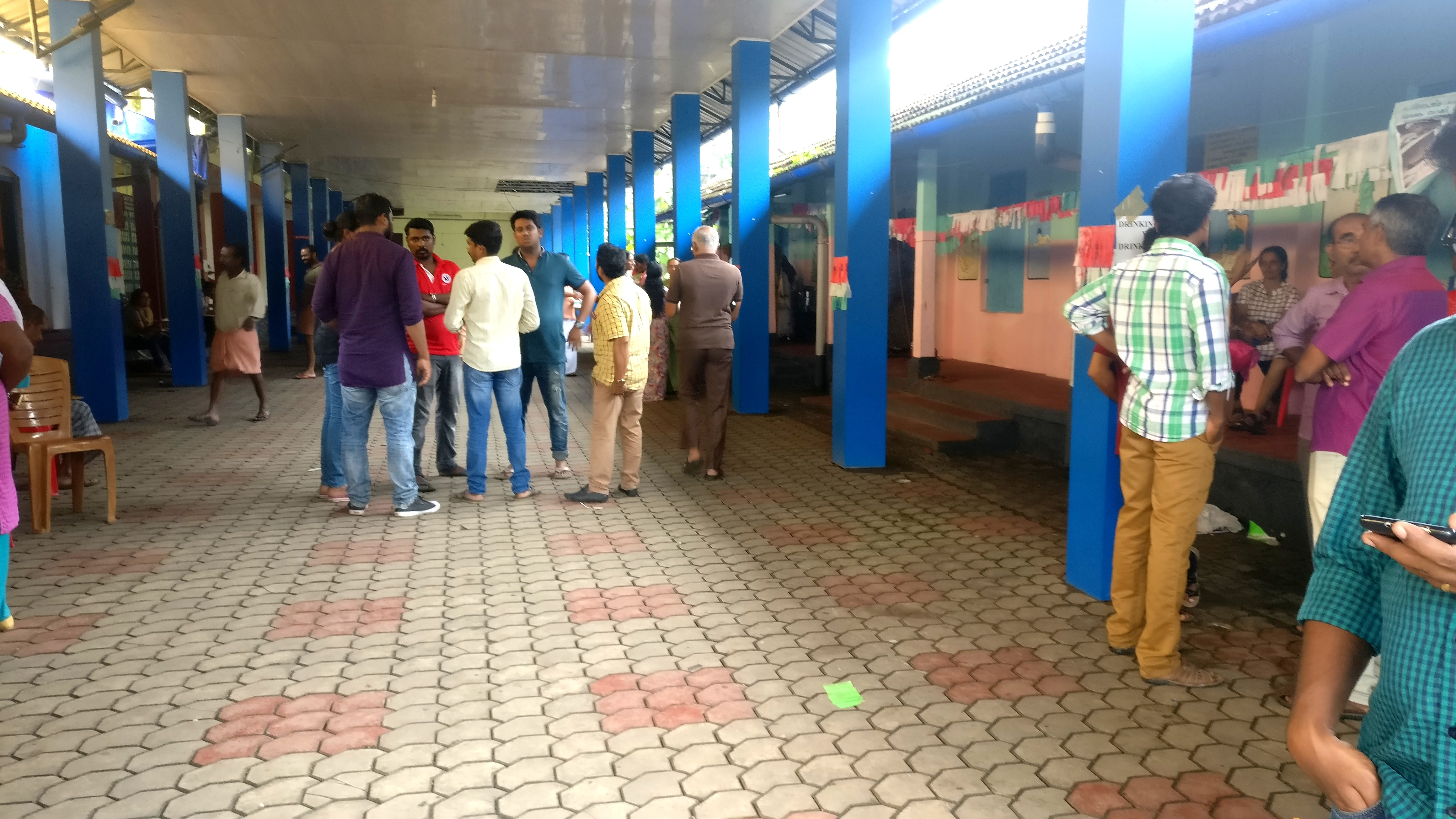 To rescue the people of Kerala, from flood, authorities have opened a relief camp at Govt L.P School in Padivattom, Kochi on 17th August 2018.